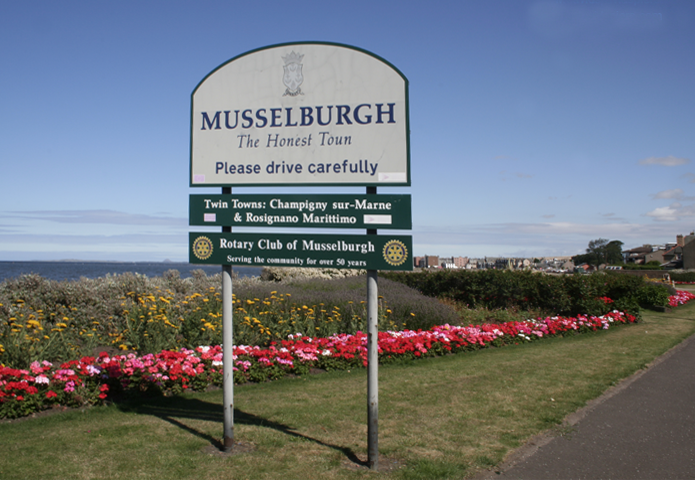 Musselburgh, welcome to the 'honest toon' Davidspiers 22:54, 12 August 2006 (UTC)David Spiers